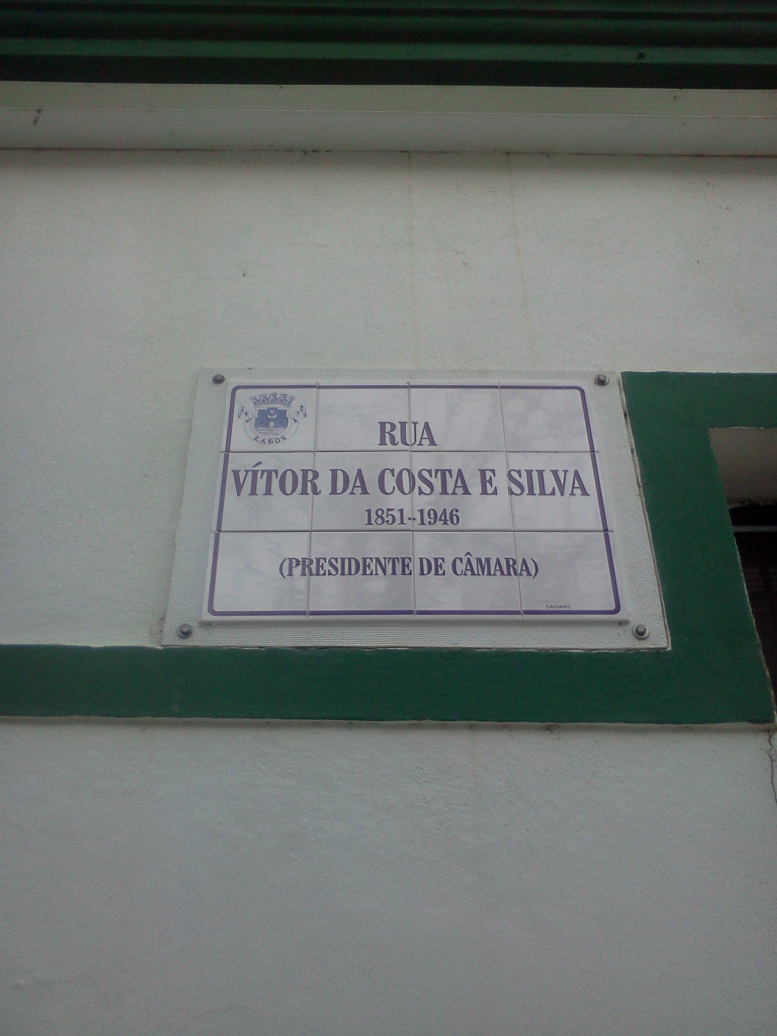 Street sign of Rua Vitor da Costa e Silva, in the city of Lagos, in southern Portugal.